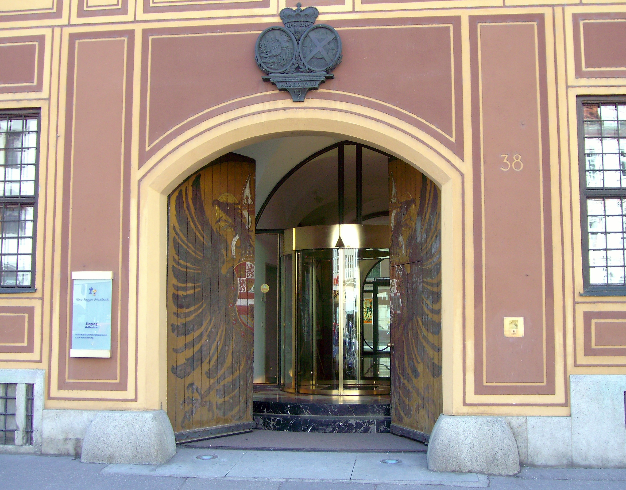 “Adlertor” (Eagle gate) of the 16. century residence of the Fugger, today main entrance of Fürst Fugger Privatbank (Prince Fugger Private Bank)